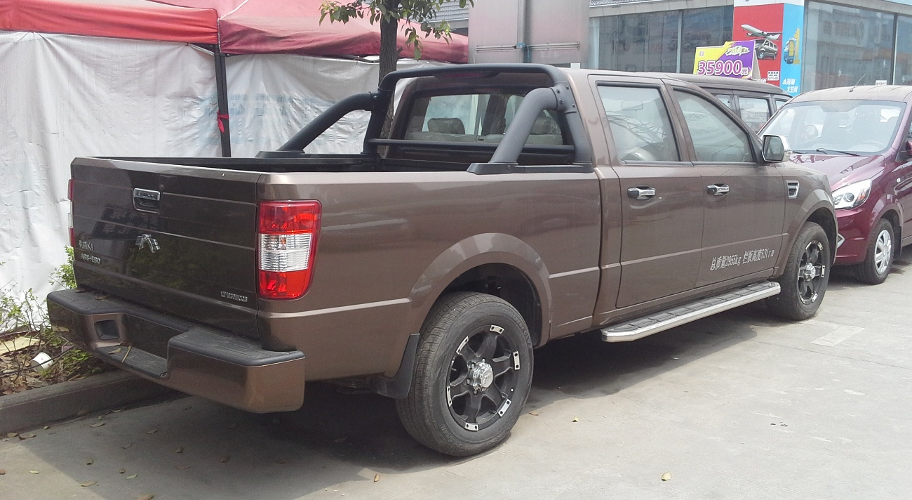 Kawei Auto K1 photographed in Wuhan, Hubei province, China.